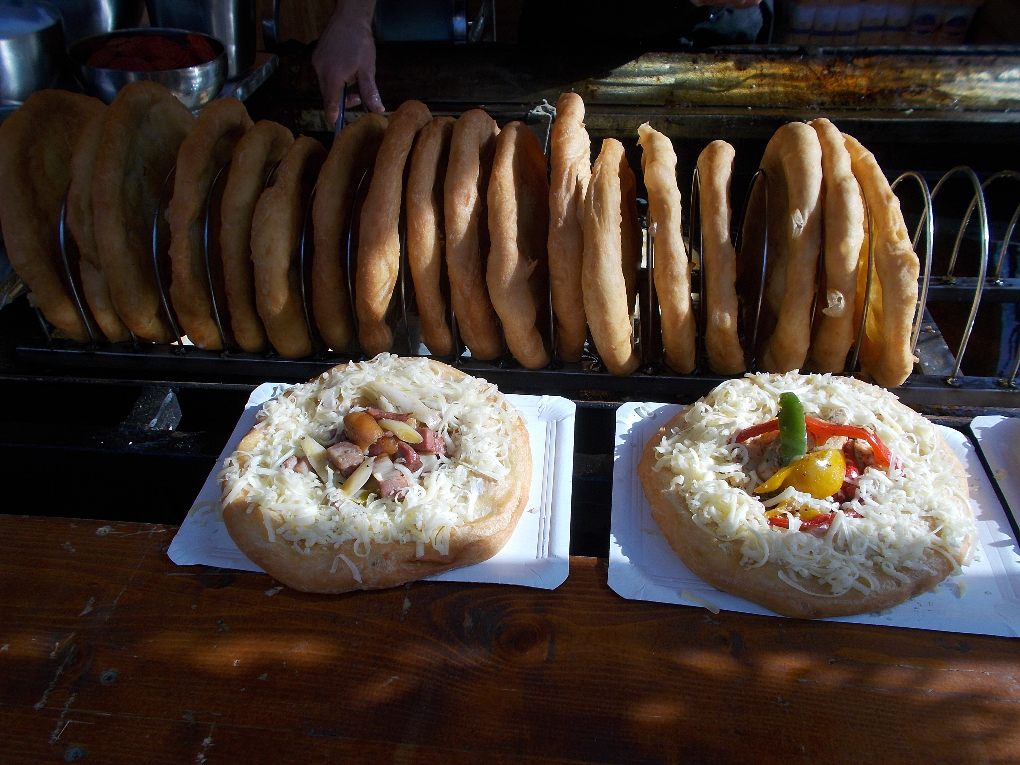 lángos, food festival. The top is 'Pork and vegetables' (see 'other versions') - Szabadság Square, Lipótváros neighbourhood, Budapest District V.